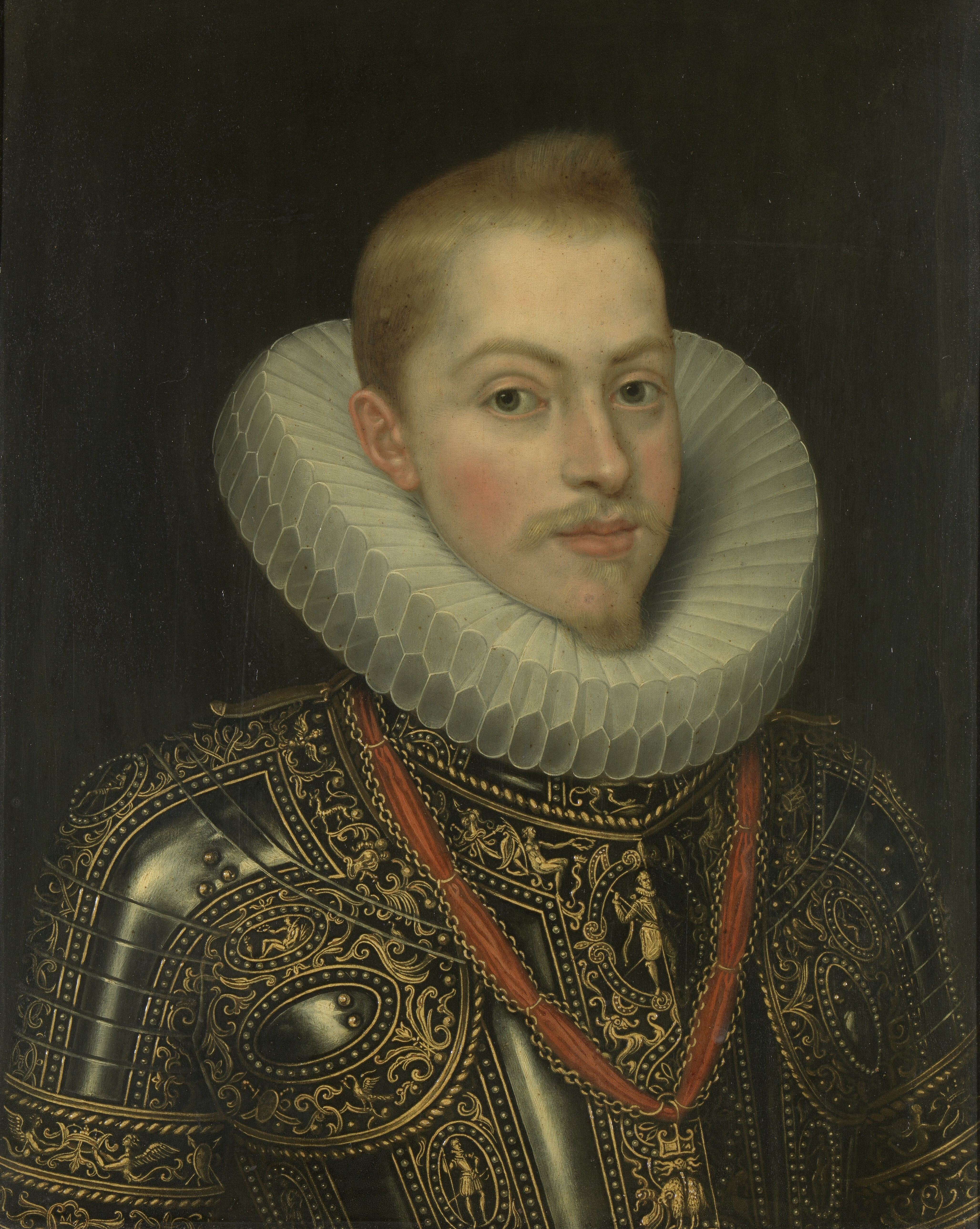 Philip III of Spain